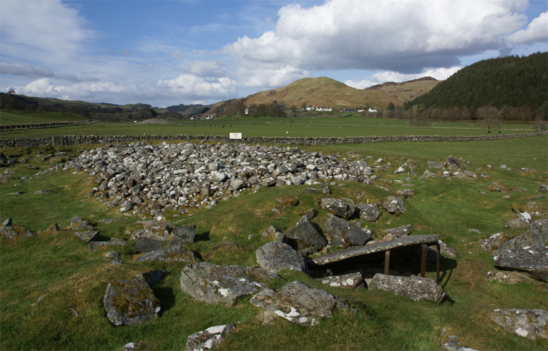 Nether Largie Mid Cairn, Kilmartin Glen, Scotland - from the south